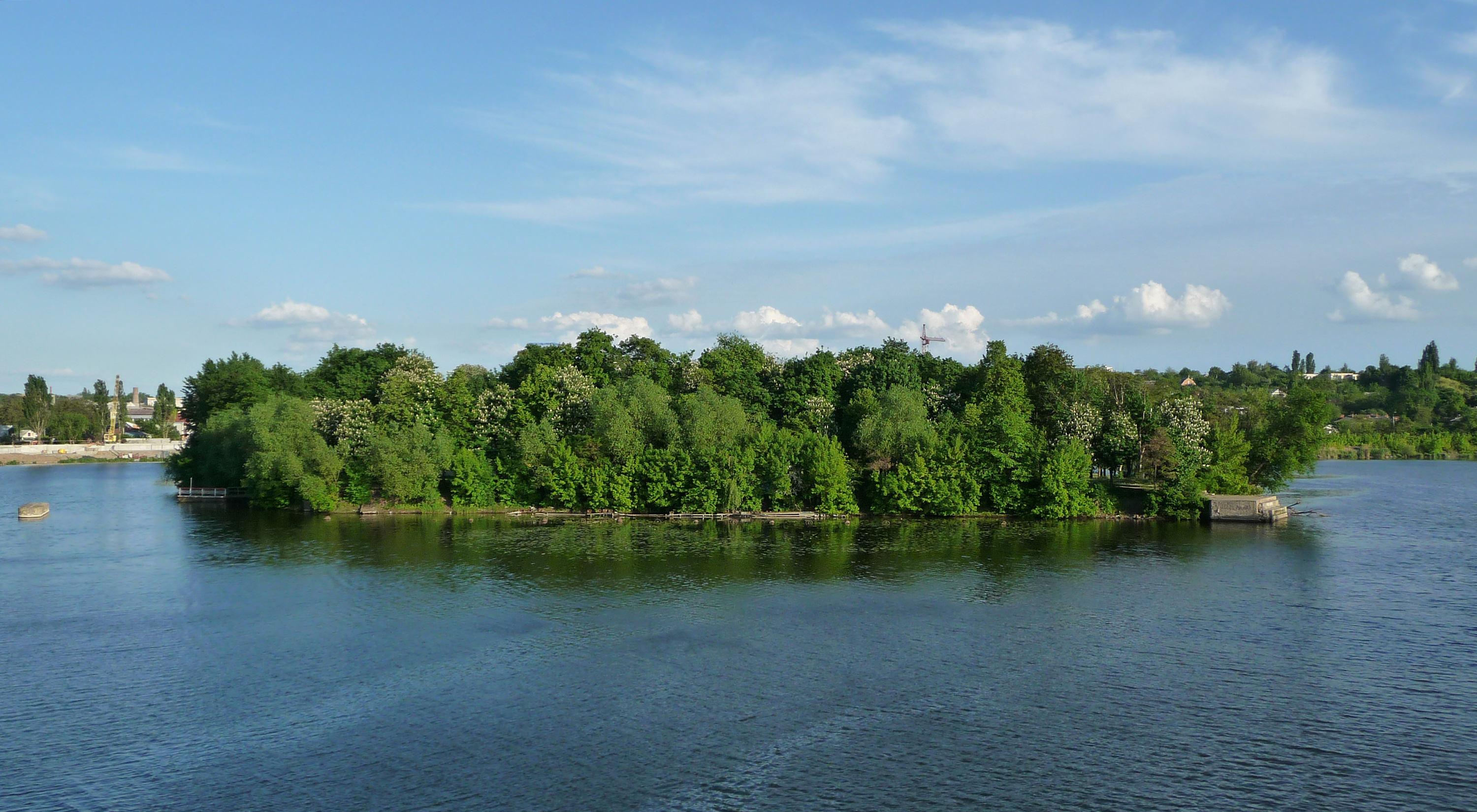 Island Kempa (other name - Festival island). The Southern Bug river. It is central part of Vinnitsa city.